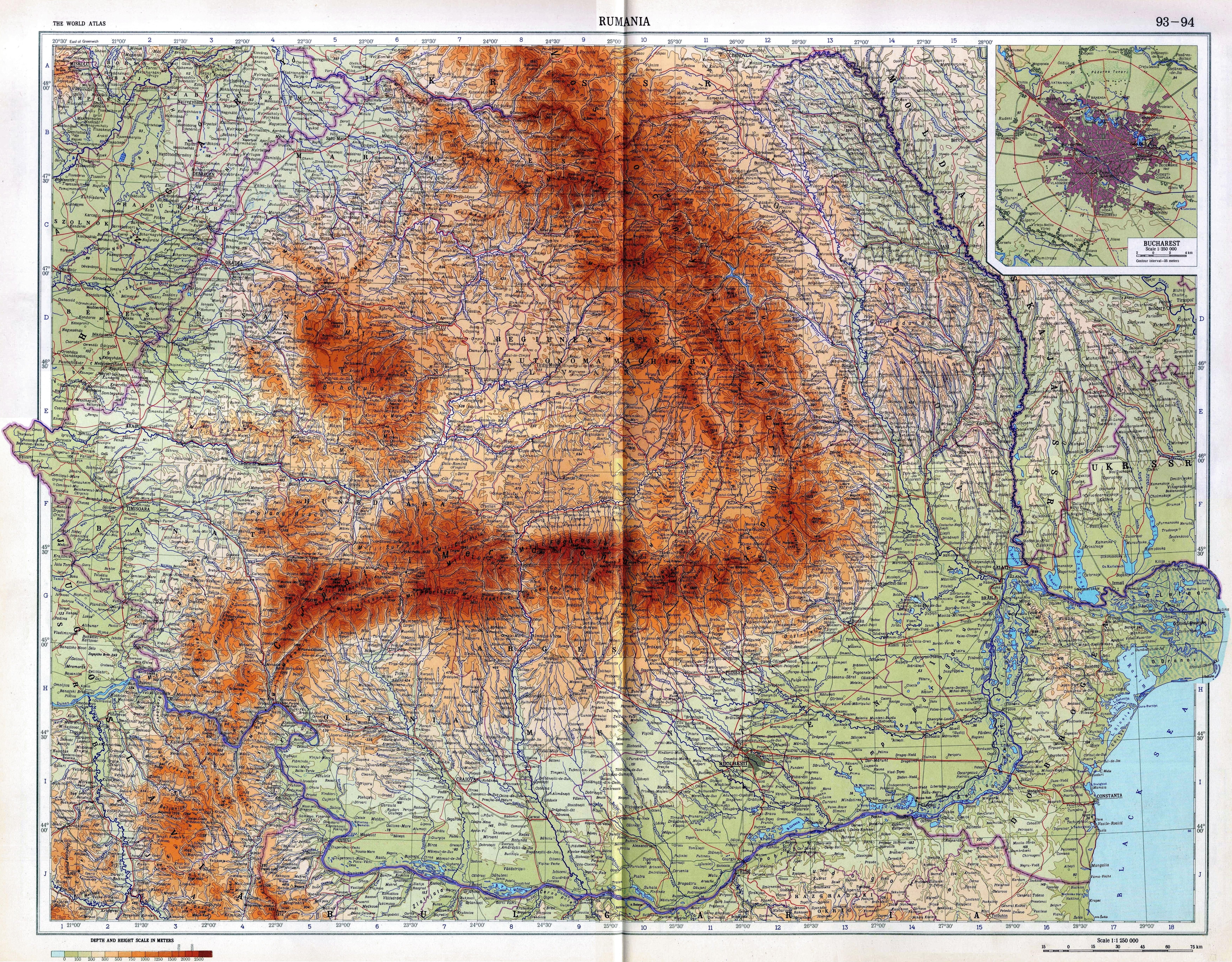 Map of Rumania